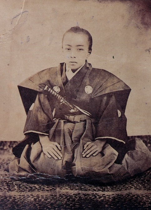 a Japanese man 徳川昭武 (Tokugawa Akitake)